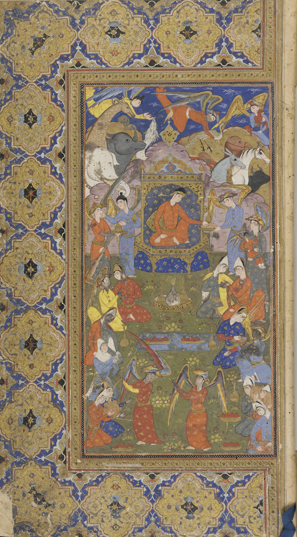 The Shahnama (in persian:شاهنامه: Book of Kings) of Firdausi in a modern binding of red-brown leather ornamented with blind and gold tooling Iran